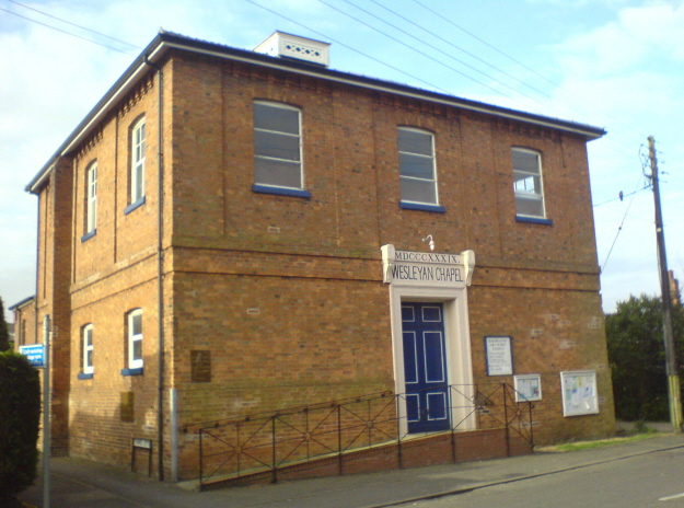 Bassingham Wesleyan Methodist Church, Designed by the Lincoln architect W A Nicholson 1839.